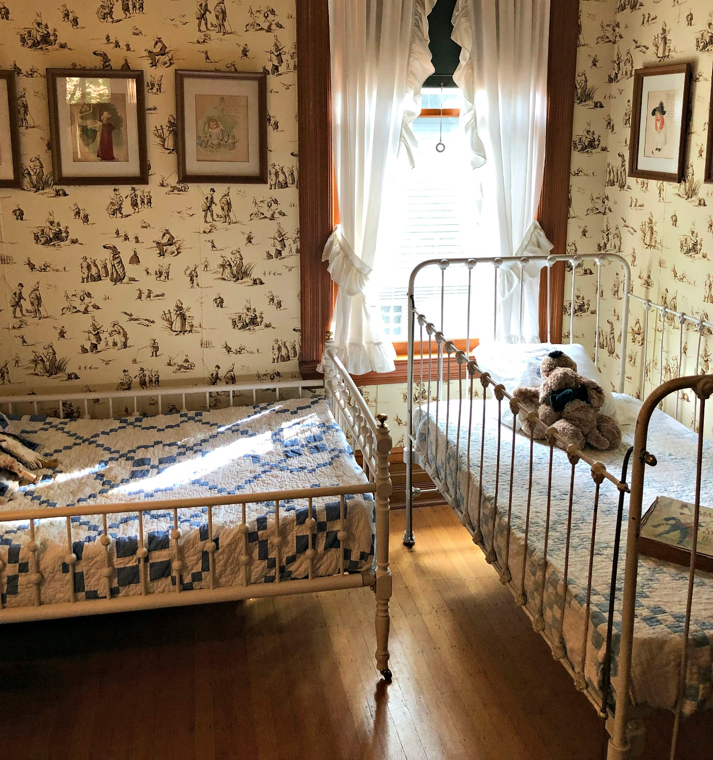 Recreated nursery of Ernest Hemingway family. Ernest Hemingway birthplace, 339 Oak Park Ave, Oak Park, Illinois